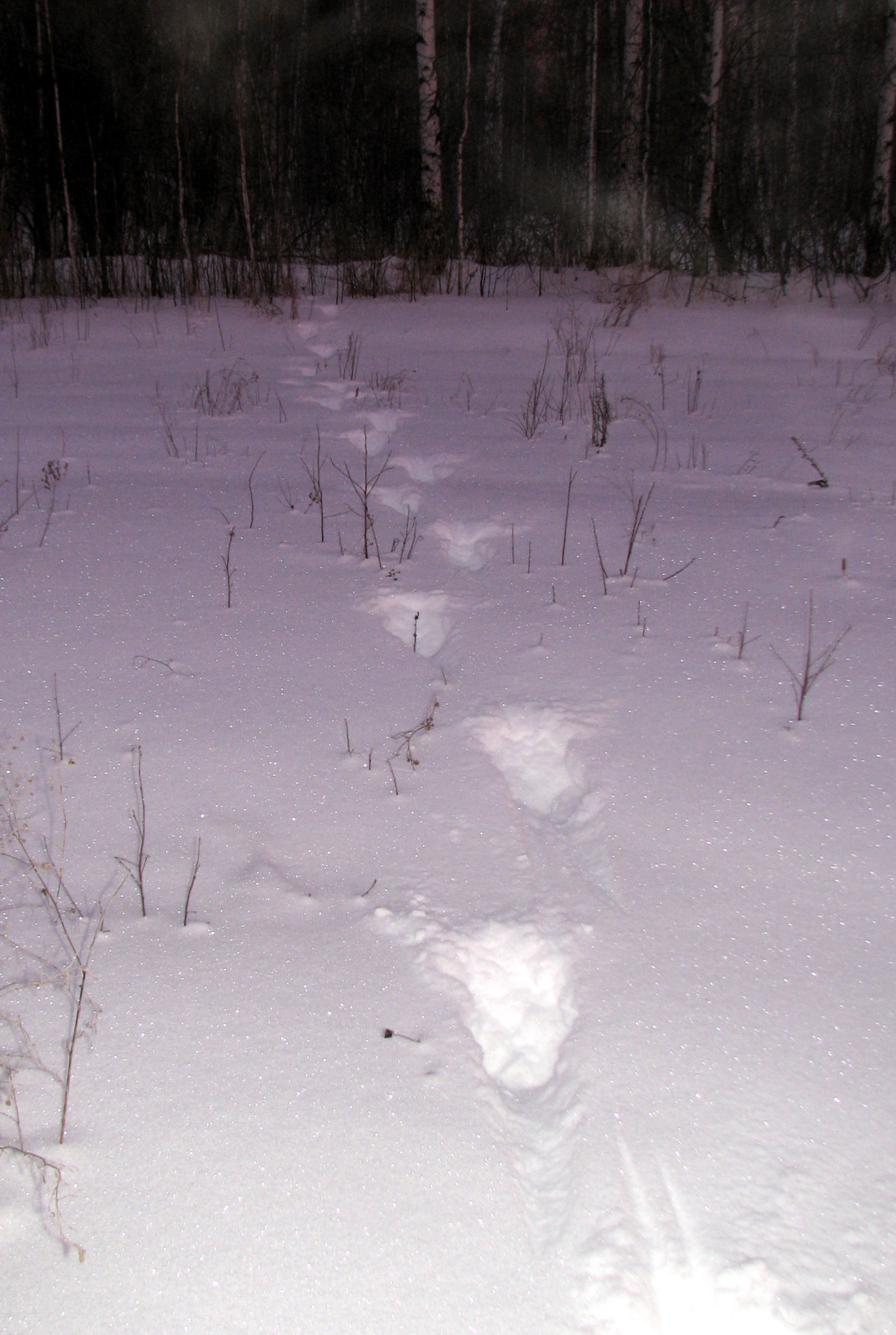 Elk (Alces alces) tracks in snow - Butakovo, Omsk Oblast, Russia.